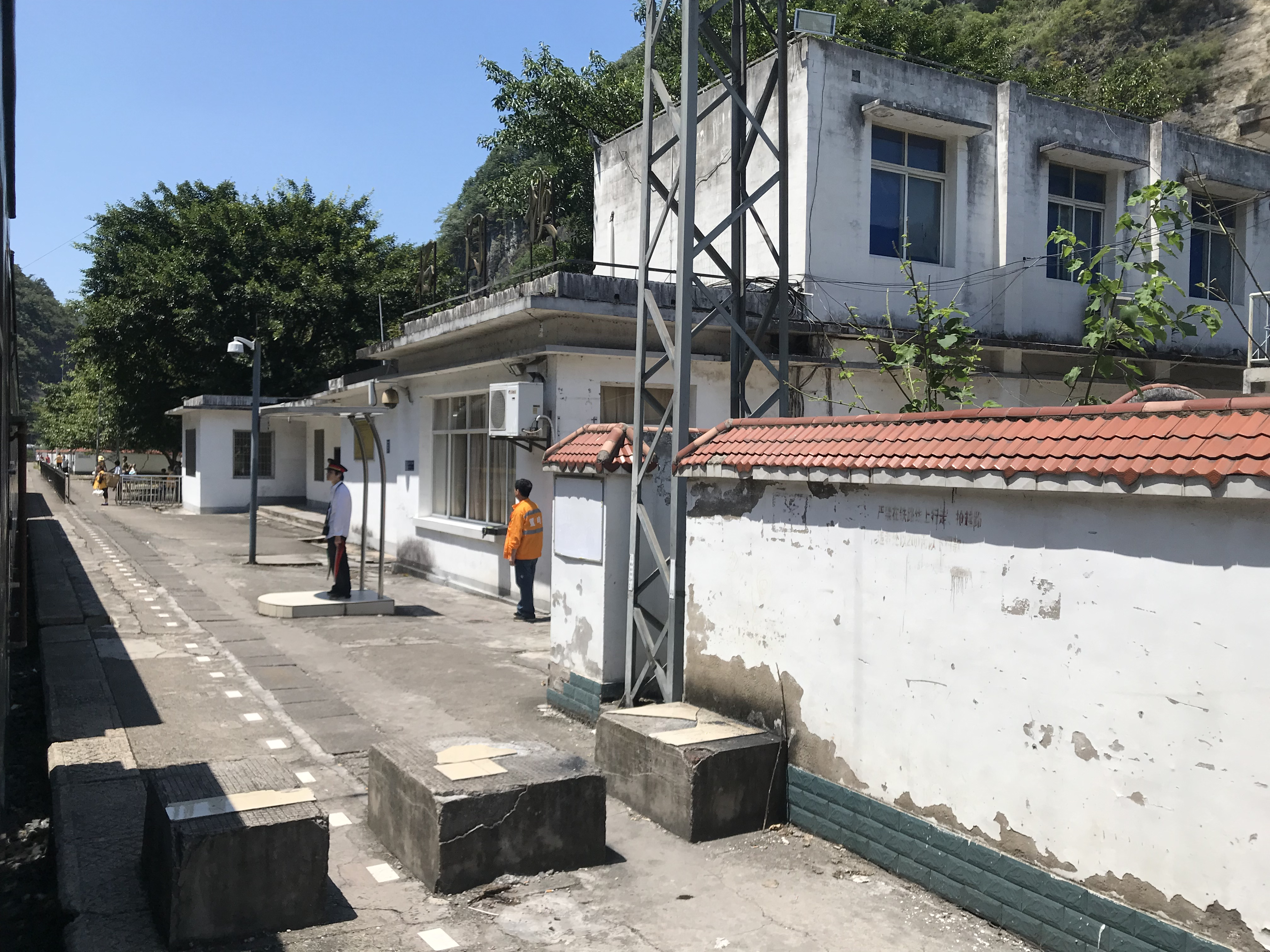 201908 Station Building of Shimenkan Station